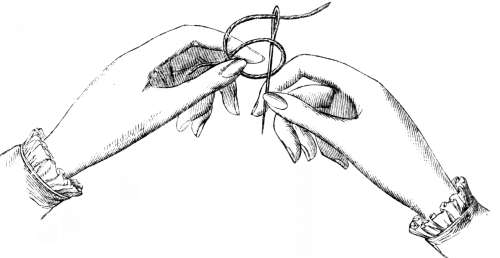 Illustration for section "Plain sewing" in Encyclopedia of Needlework. Fig. 1. Knotting the thread into the needle.